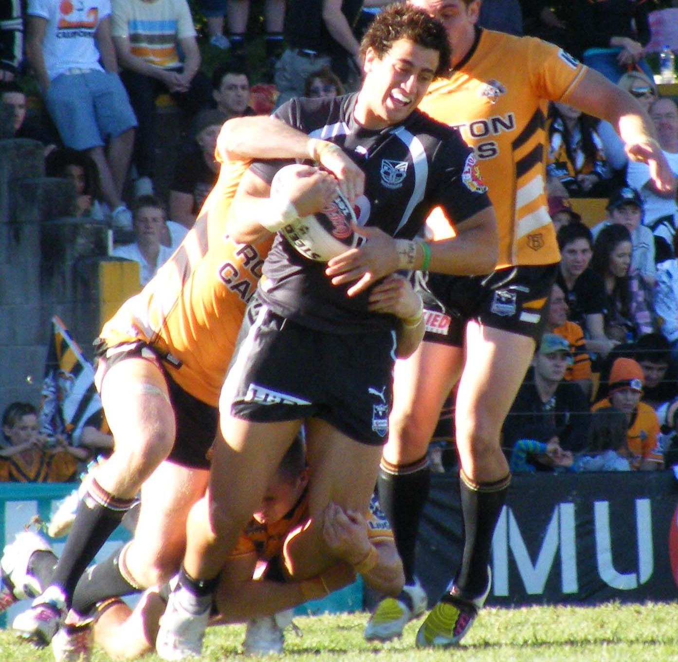 New Zealand Warriors loose forward Ben Matulino takes on the Tiger's defence.